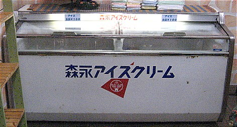 Morinaga Ice cream frozen case for Old type.